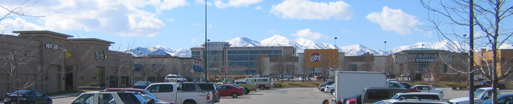 own work